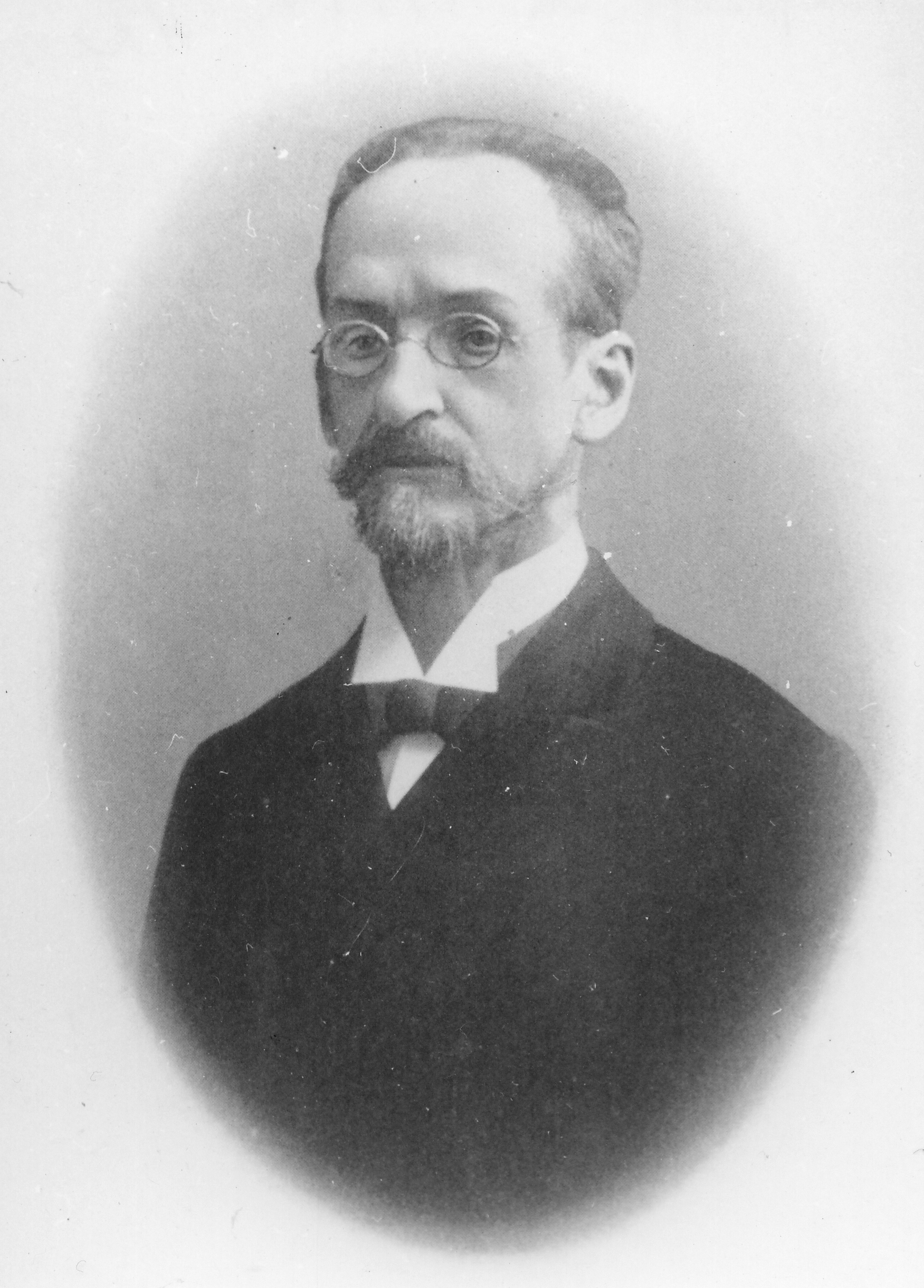 Johann Nepomuk Berger (1845-1933), chess player and chess author